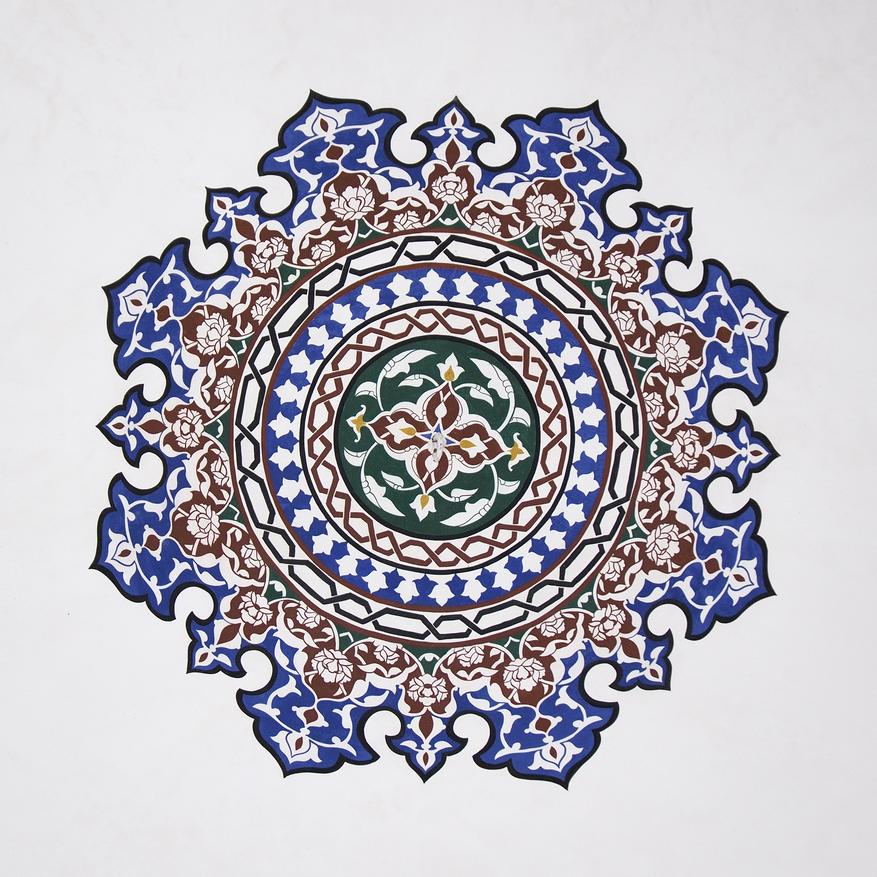 Islamic Arabesque, Aydar kadi mosque, Bitola, Macedonia. Majority of this arabesque is made of vegetal patterns, with minority of geometric patterns. This photograph was taken with an Olympus E-M1